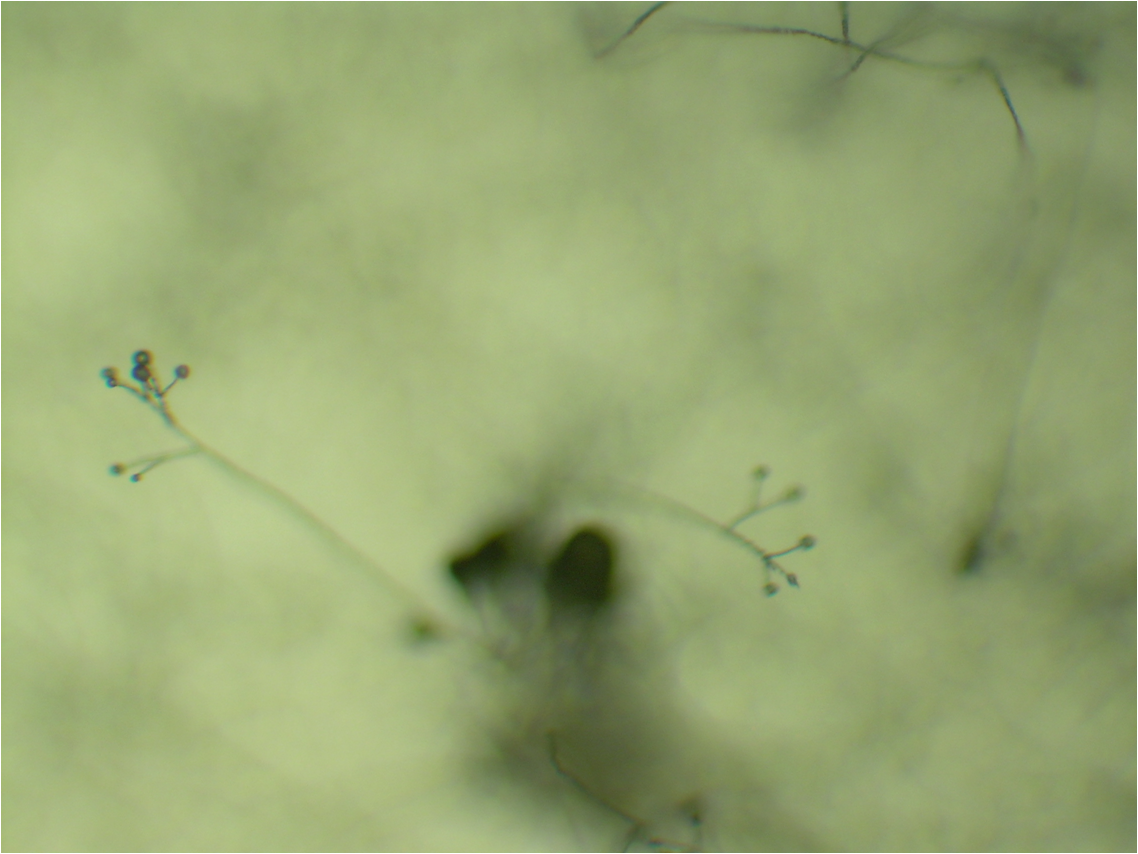 Verticillium conidiophores magnified 40X. Identified using Barnett, H. L. & Hunter, B. B. (1998) Illustrated Genera of Imperfect Fungi. APS Press: St. Paul, MN; pp. 92–3 ISBN 0-89054-192-2. Recovered from Golden Delicious apple (Malus domestica Borkh. cv. "Golden Delicious"). Host status confirmed using Farr, D. F., Bills, G. F., Chamuris, G. P., & Rossman, A. Y. (1995) Fungi on Plants and Plant Products in the United States. APS Press: St. Paul, MN; pp. 469–73 ISBN 0-89054-099-3.